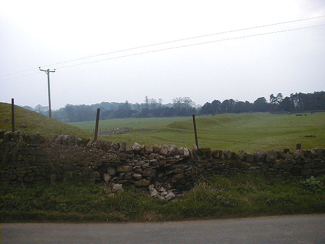 I took this photograph.